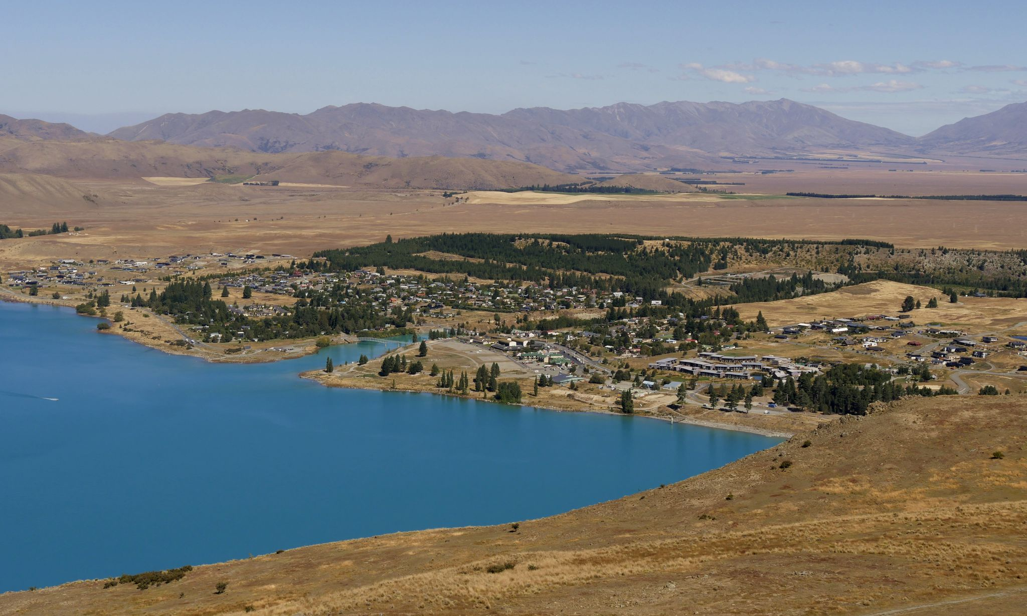 Lake Tekapo (Township), Mackenzie District, Canterbury Region, South Island, New Zealand (view from Mount John)